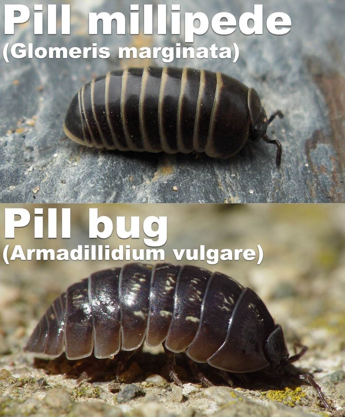 Comparison of and Glomeris (Diplopoda: Glomerida) and Armidillidium (Crustacea: Isopoda)